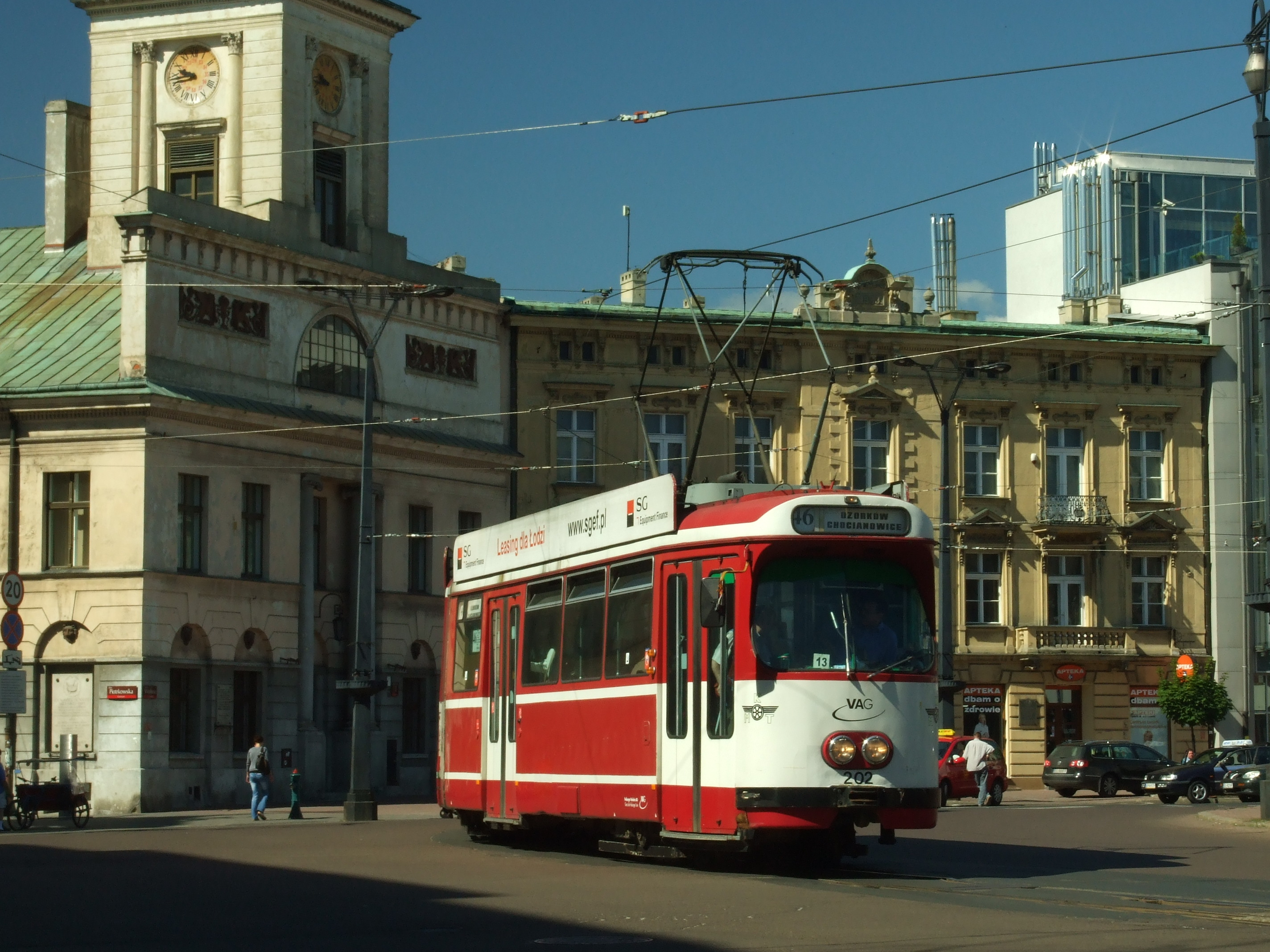 Duewag tram on Wolnośći square in Łódź, Łódź voivodship, Poland.